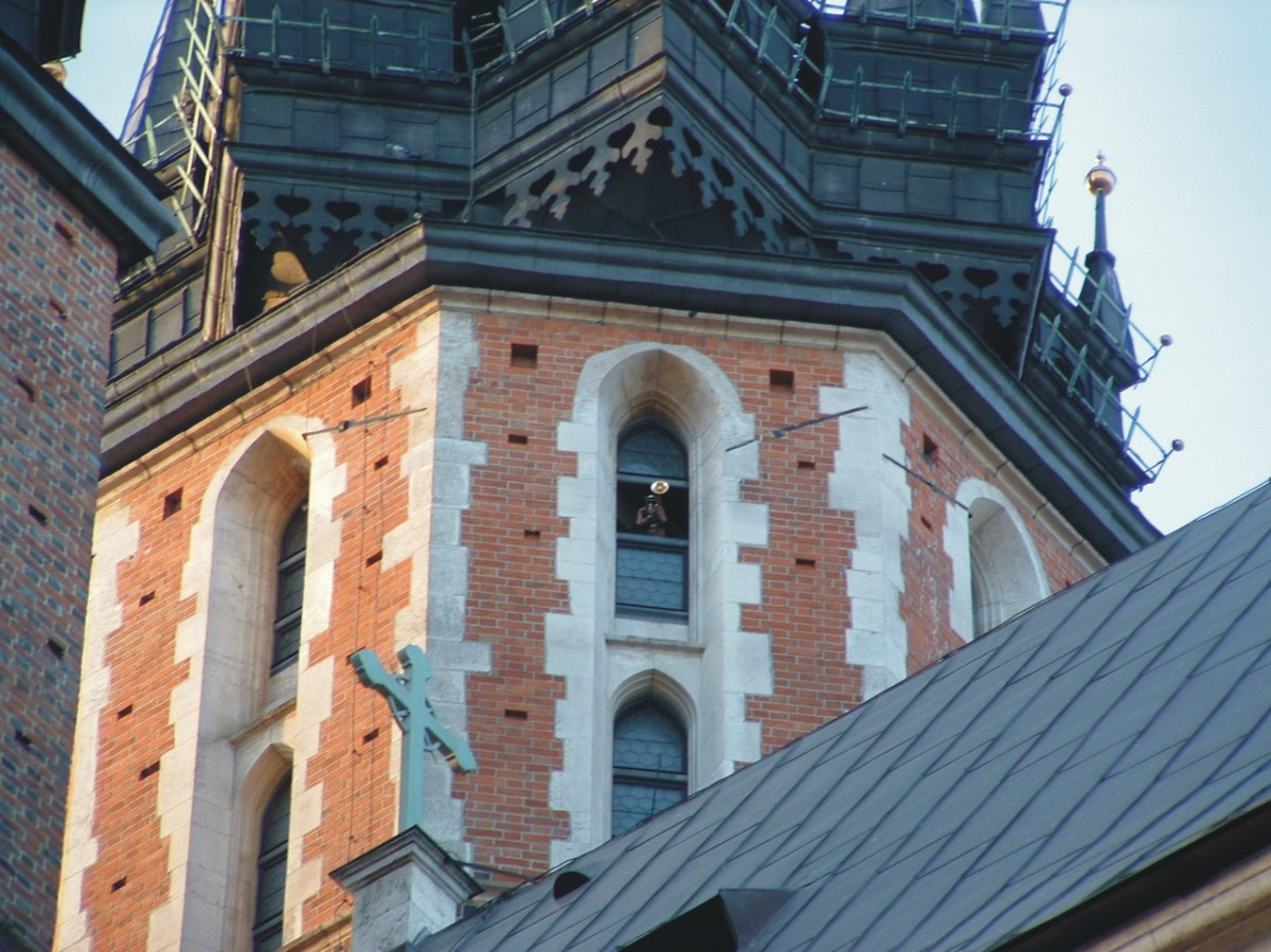 Bugler playing the Hejnał mariacki at the higher tower of the St. Mary's Church of Kraków